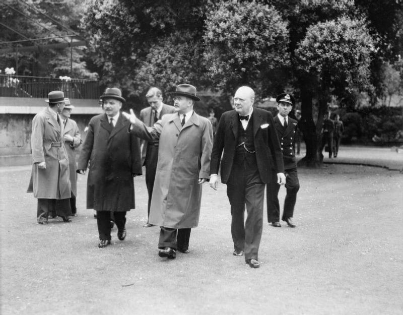 The Signing of the Anglo-russian Alliance, London, 26 May 1942 A general scene showing delegates enjoying a walk in the gardens of 10 Downing Street, following the signing of the Anglo-Soviet Alliance. Left to right, they are: Mr Sabolev, Mr Papov, Ivan Maisky (Soviet Ambassador to London), Anthony Eden (British Secretary of State for Foreign Affairs), Molotov (Soviet Foreign Secretary), Prime Minister Winston Churchill, and an unidentified naval officer.